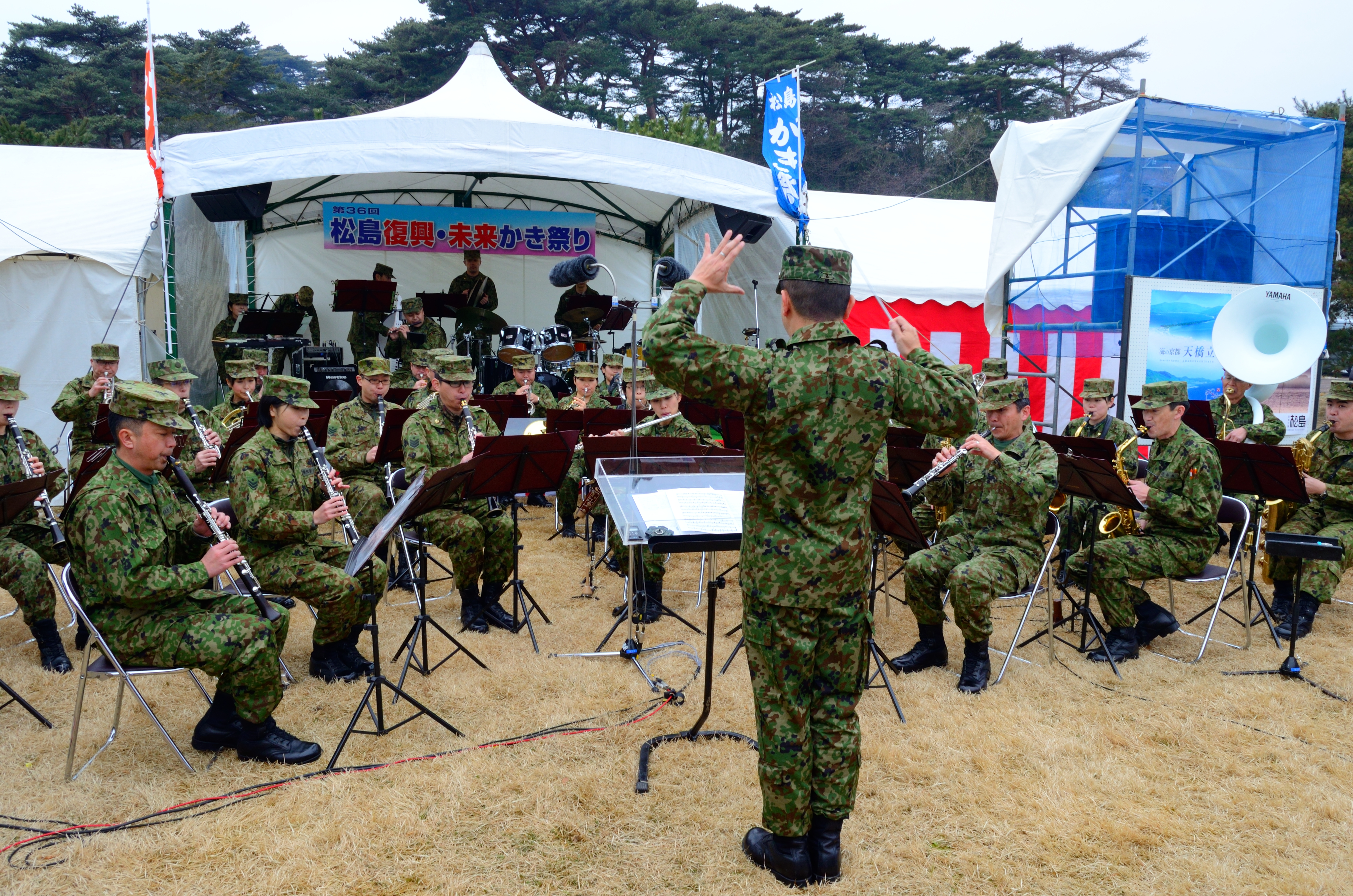 Japan Ground Self-Defense Force North Eastern Army Band playing at Matsushima.